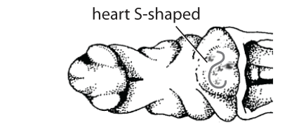 Standard Event System character depiction